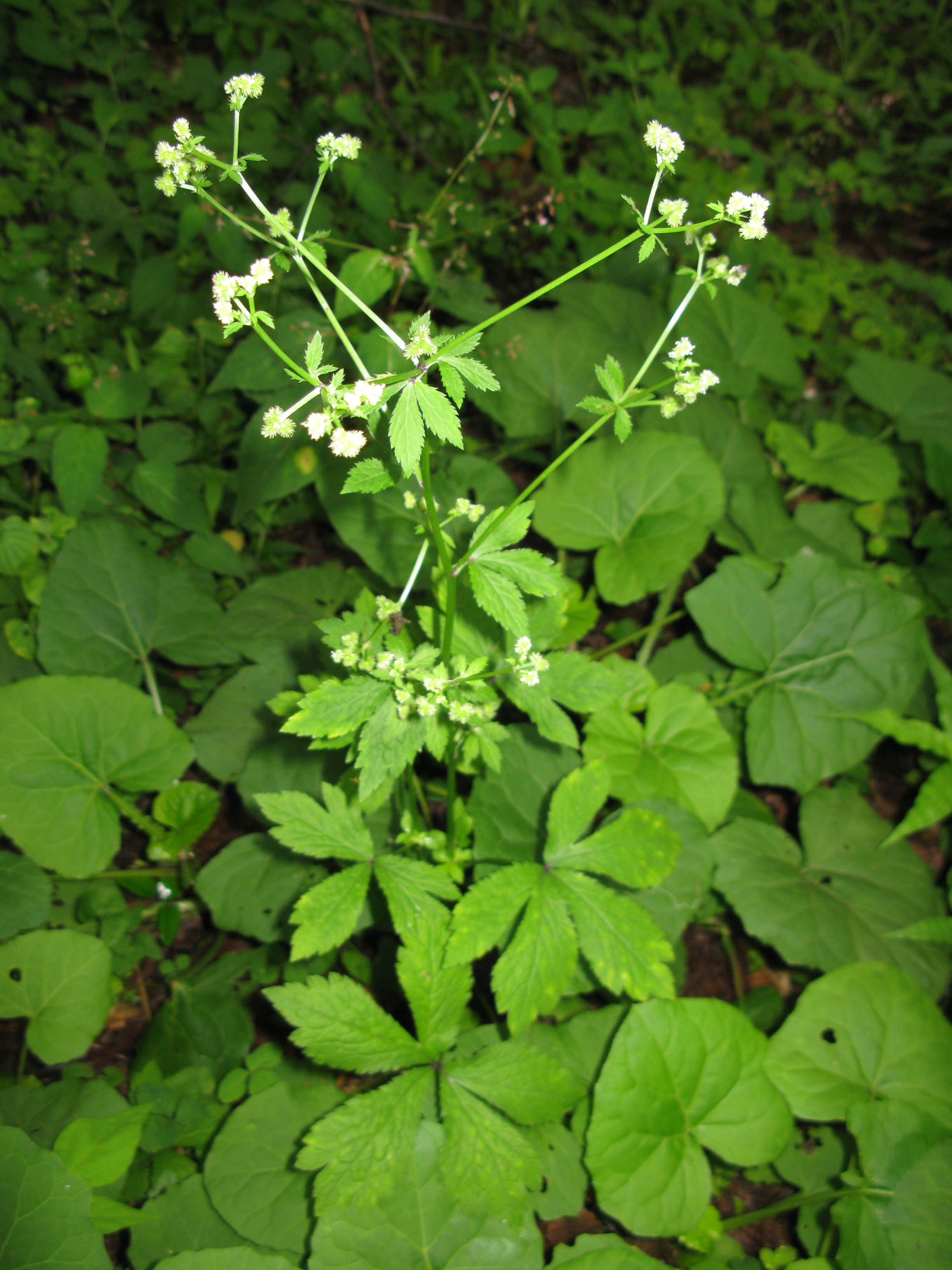 Sanicula chinensis, Aizu area, Fukushima pref., Japan